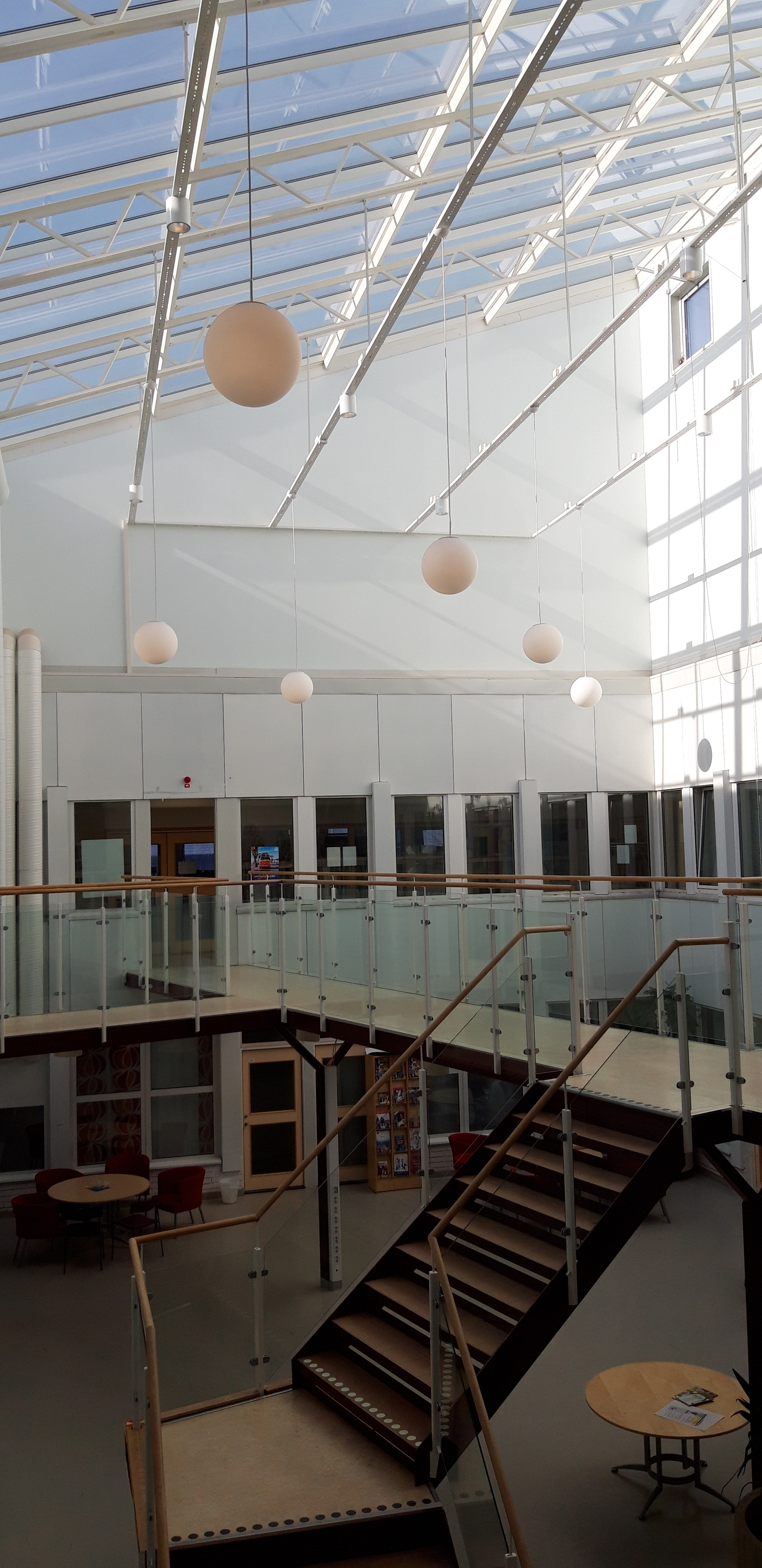 Common spaces in swedish schools